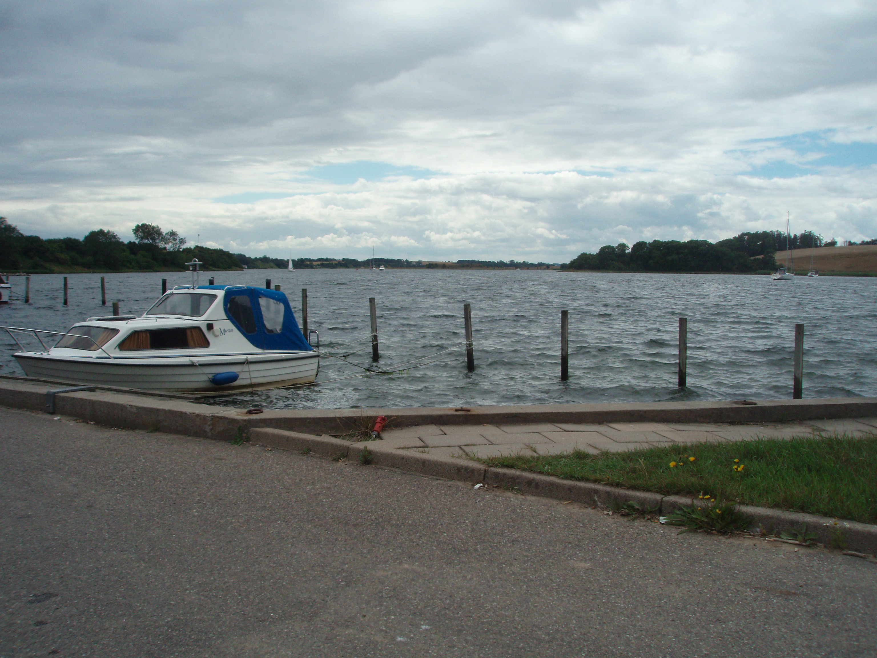 Dyvig, view towards the entrance of the natural harbour